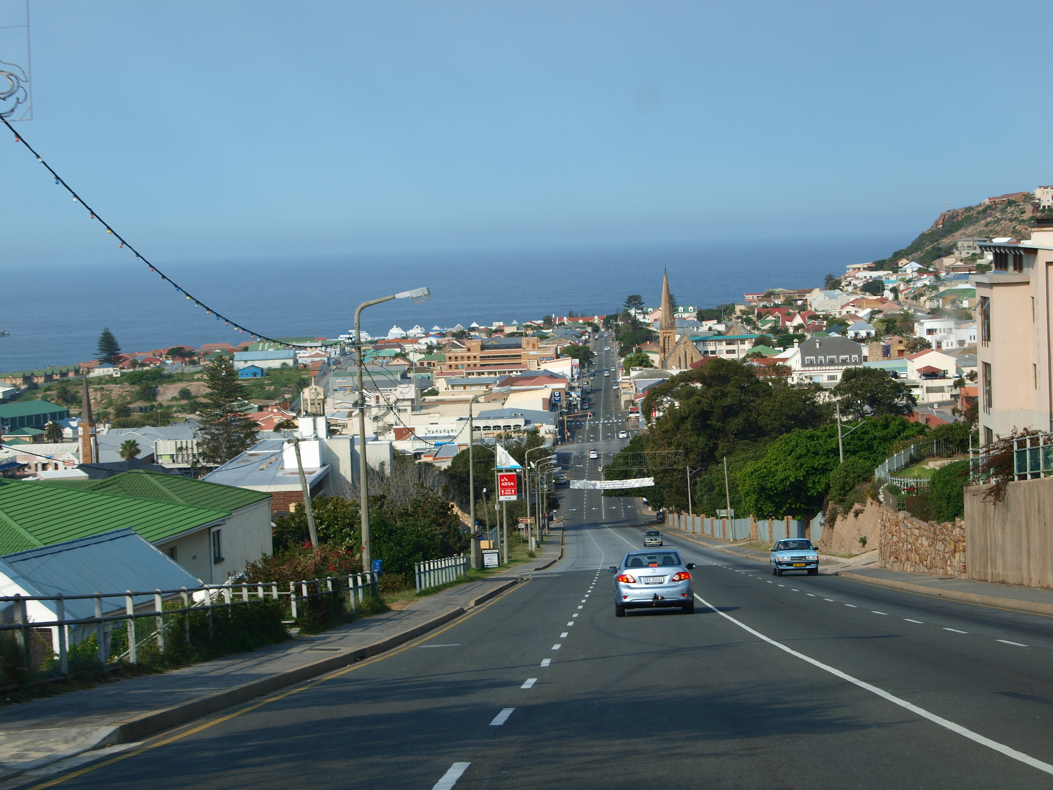 Mossel Bay